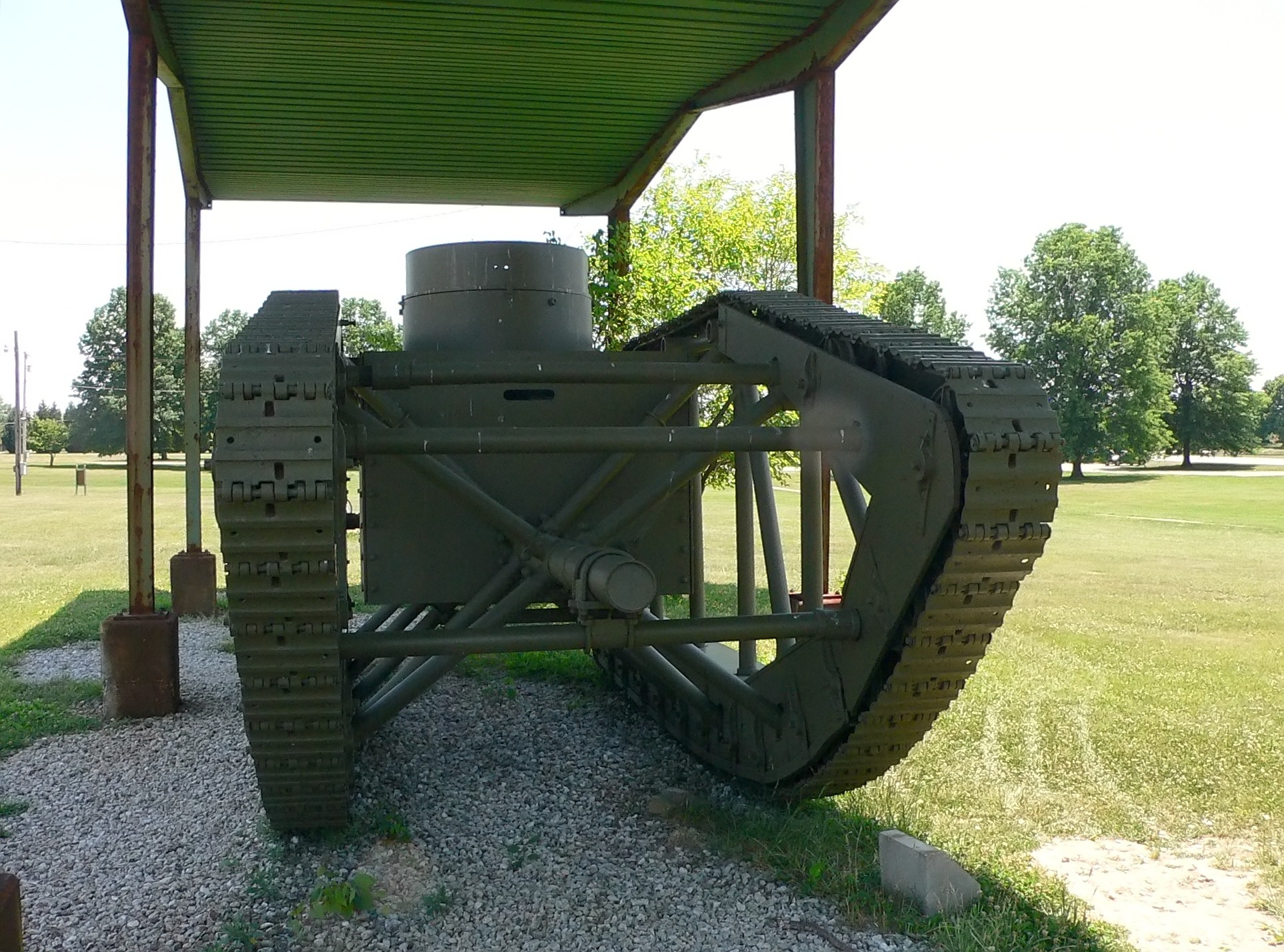 Picture taken by myself, Mark Pellegrini, at the United States Army Ordnance Museum (Aberdeen Proving Ground, MD) on June 12, 2007.